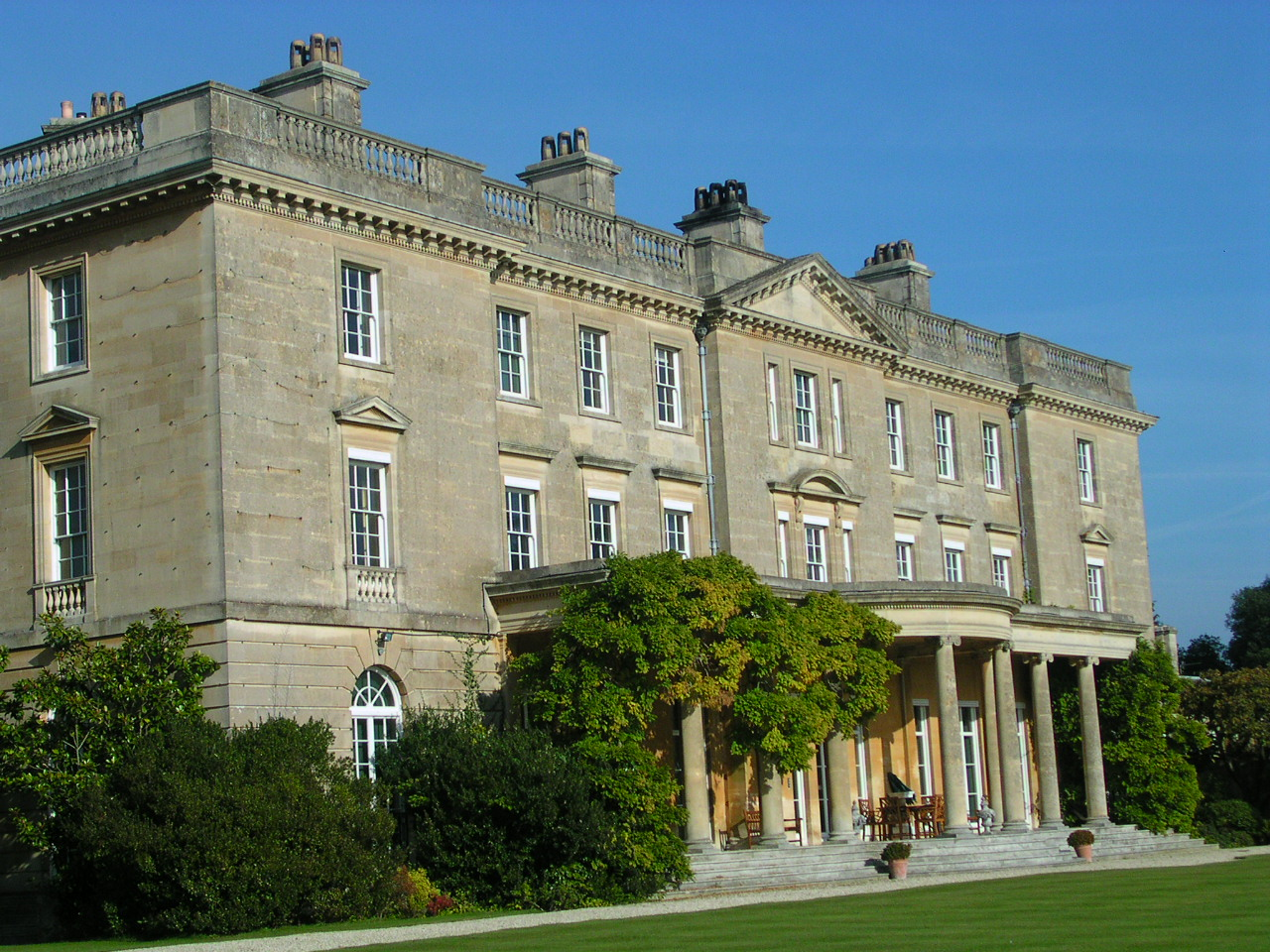 Exbury House, Hampshire, England. November 2007